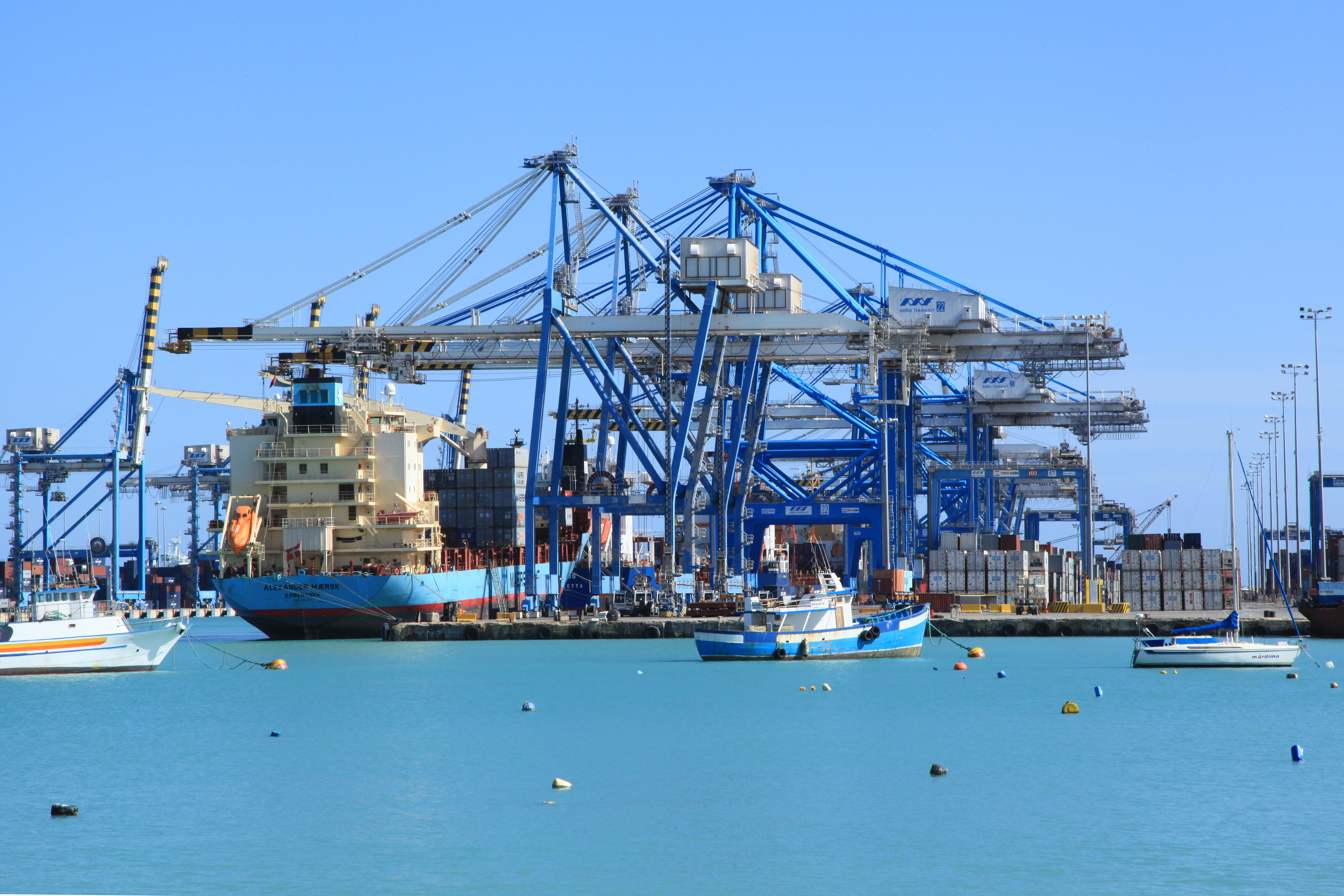 View from Triq San Patrizju to the Malta freeport, Triq Kalafrana in Birżebbuġa